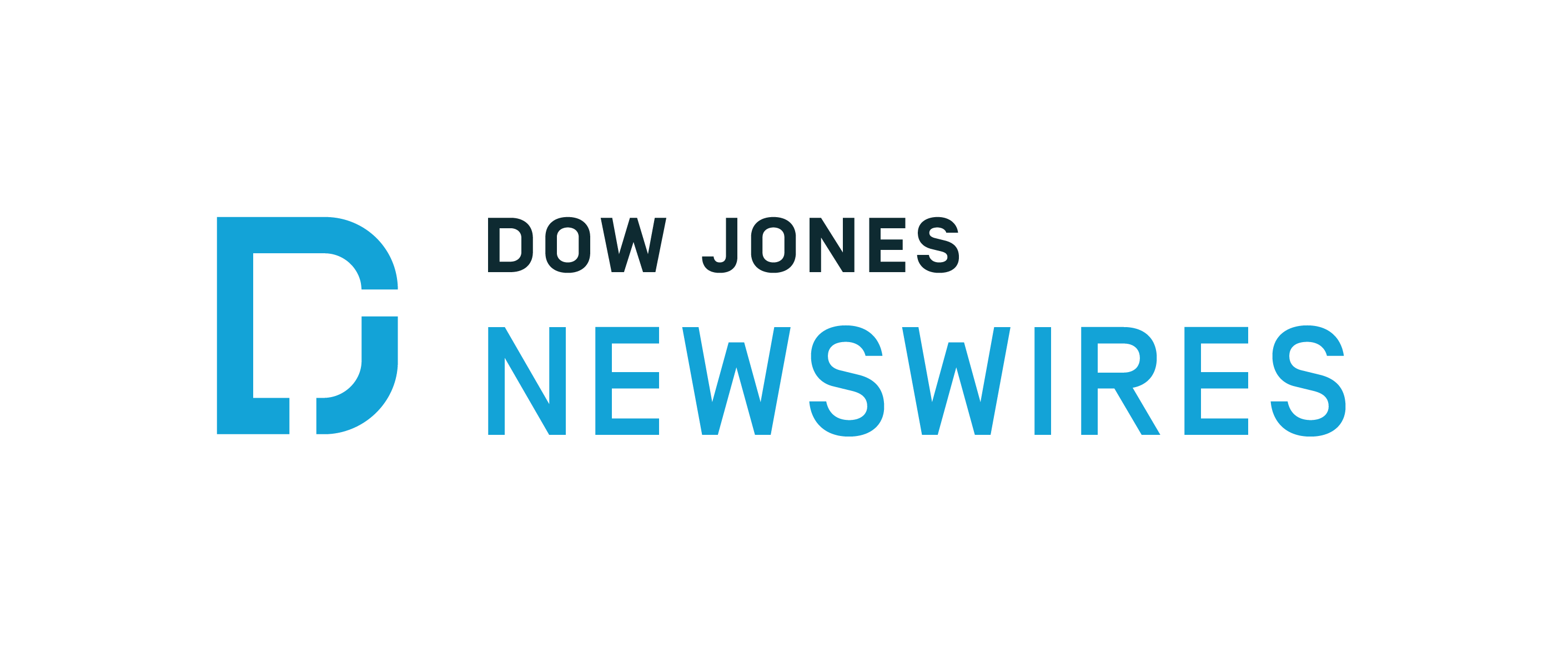 Newswires Logo